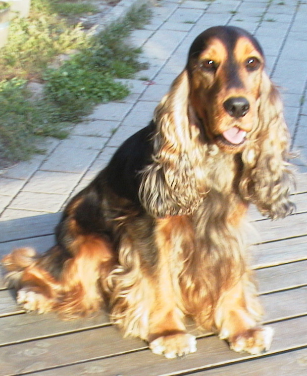 English Cocker Spaniel - sable colour